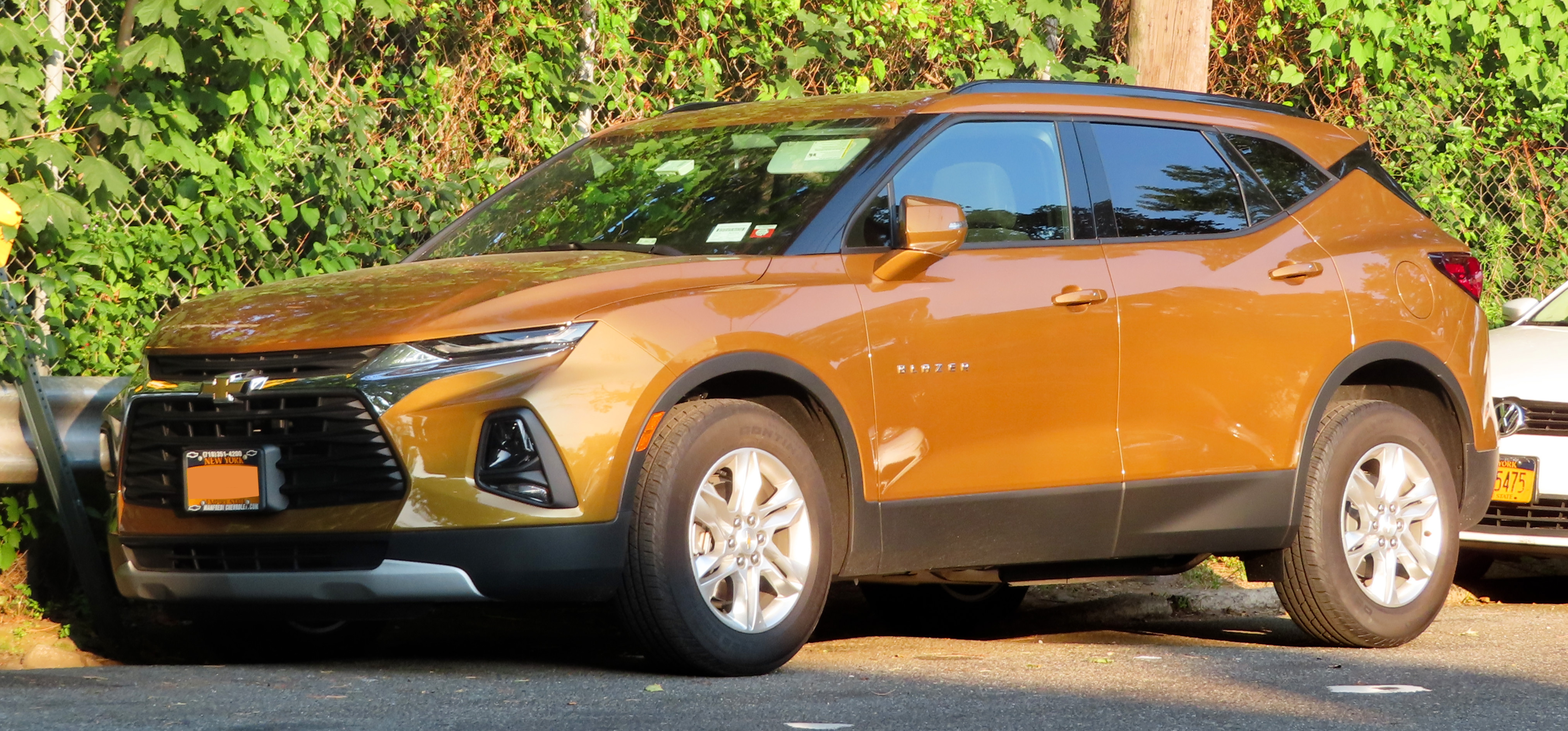 A 2019 Chevrolet Blazer 2LT AWD photographed in Flushing, Queens, New York, USA